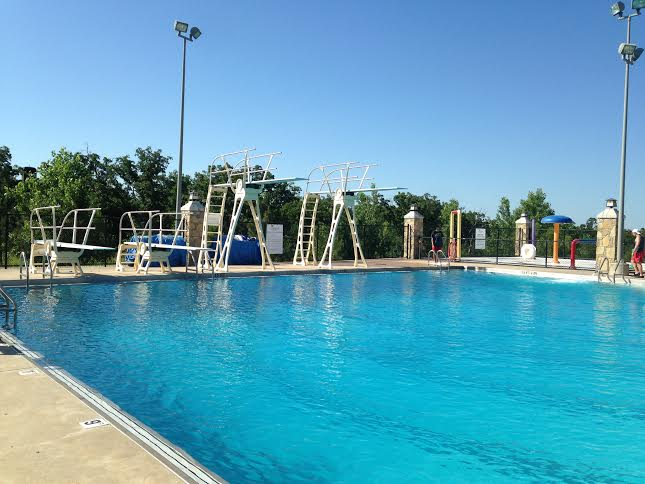 Hille Aquatics Center at Camp Loughridge